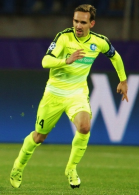 Sven Kums